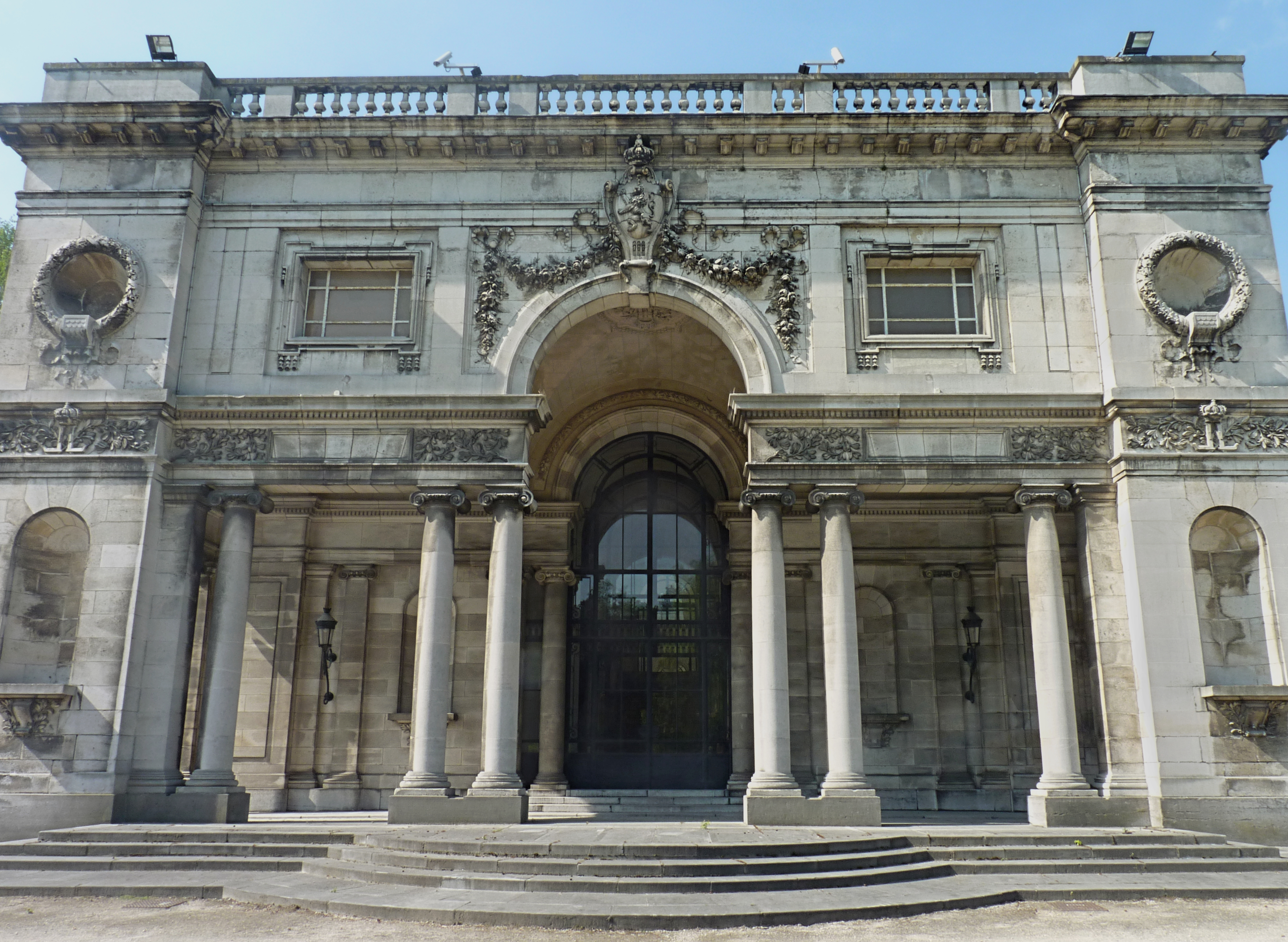 Royal castle of Laeken, back of the castle.